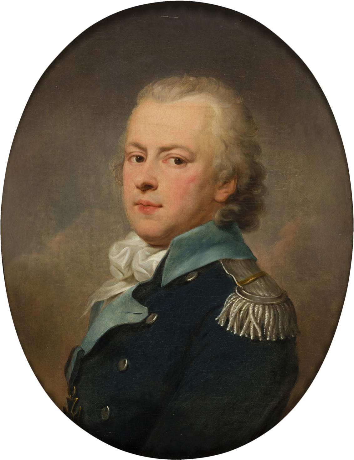 Portrait of Jan Krasicki, by Johann Friedrich August Tischbein Canvas